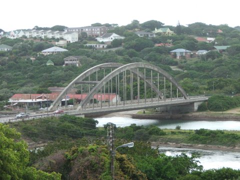 A mini version of the Sydney harbour bridge in the small town of Port Alfred